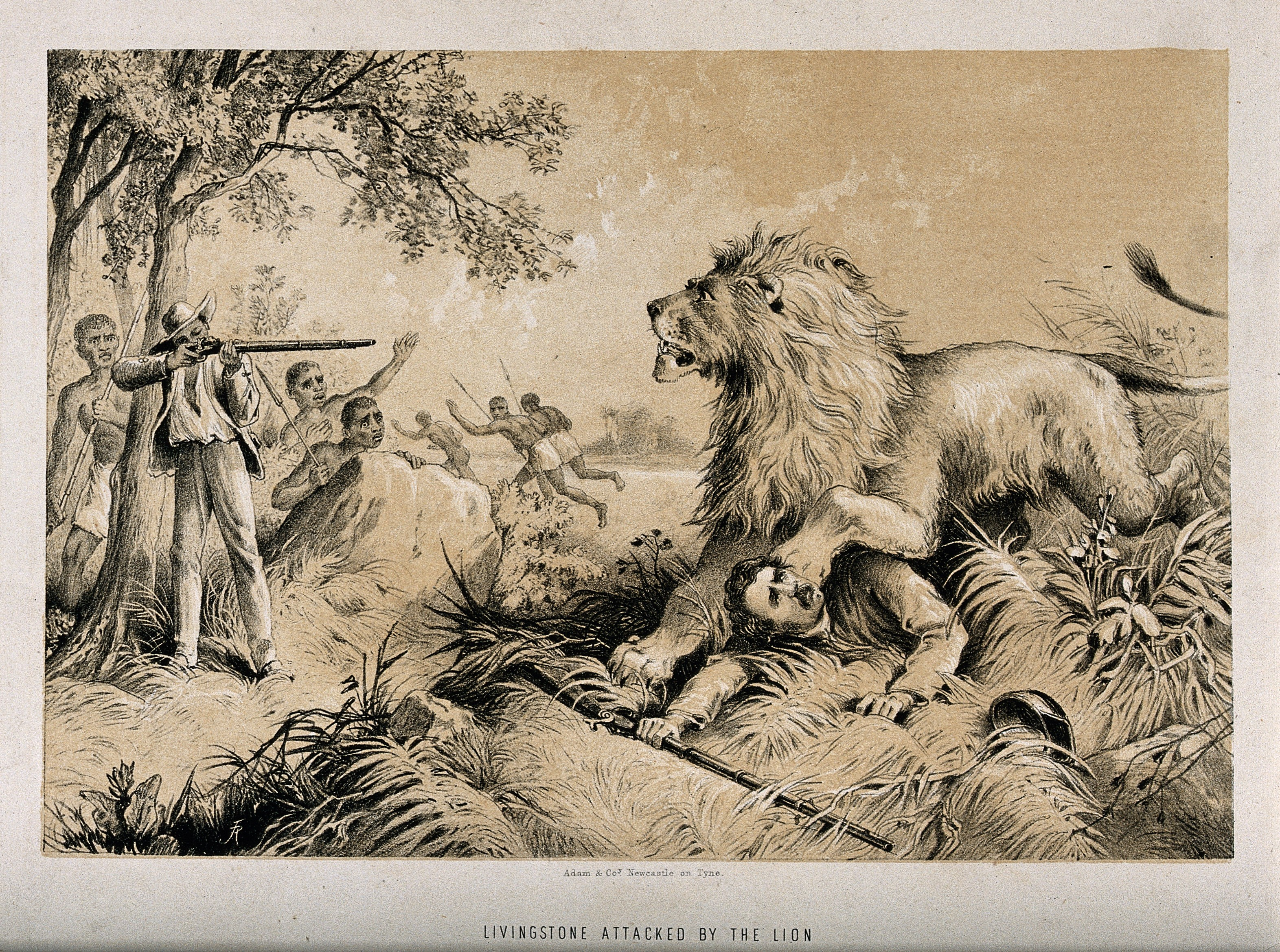 David Livingstone attacked by a lion in Africa. Lithograph. Iconographic Collections Keywords: David Livingstone